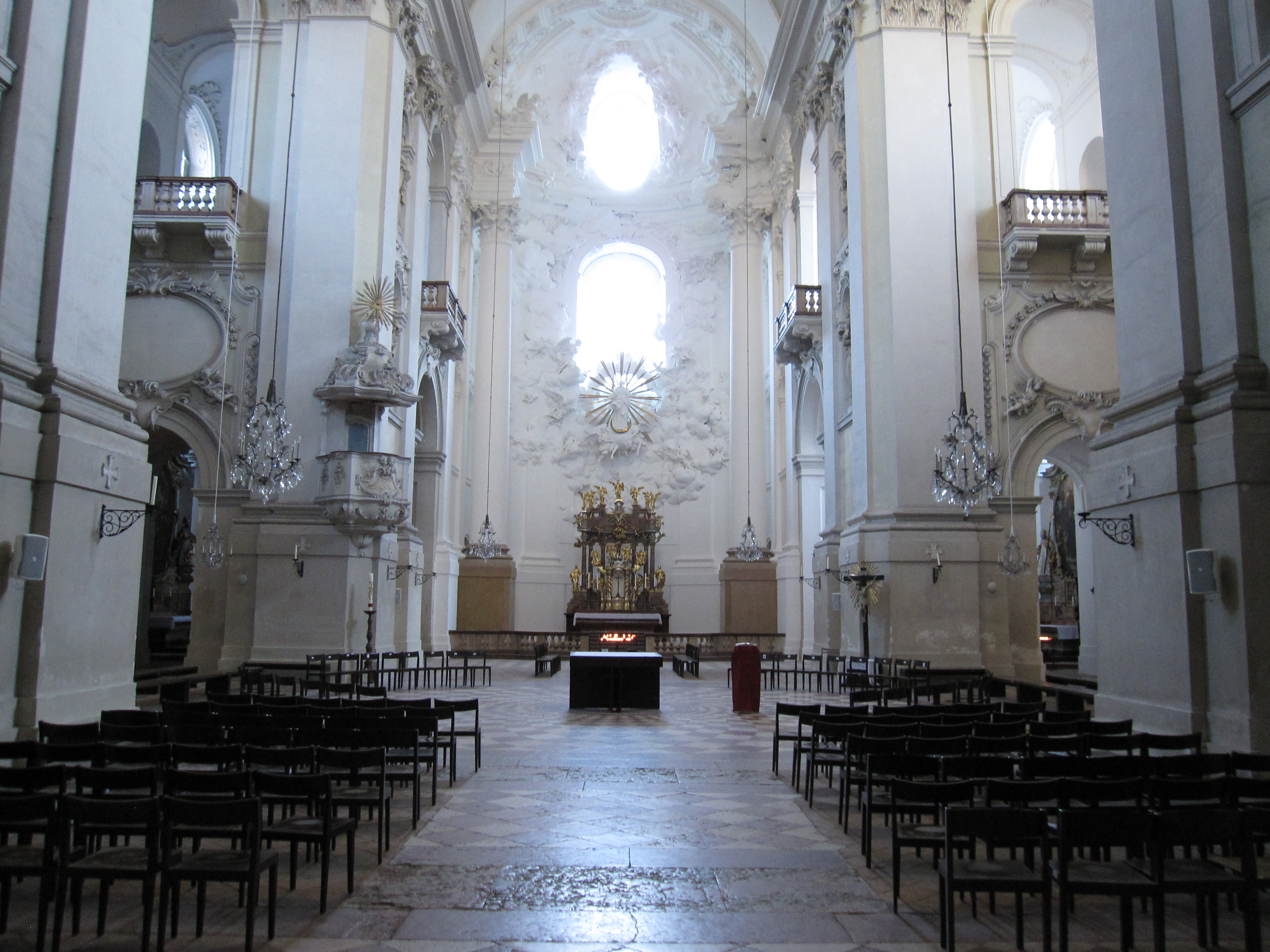 Austria, Salzburg, Kollegienkirche